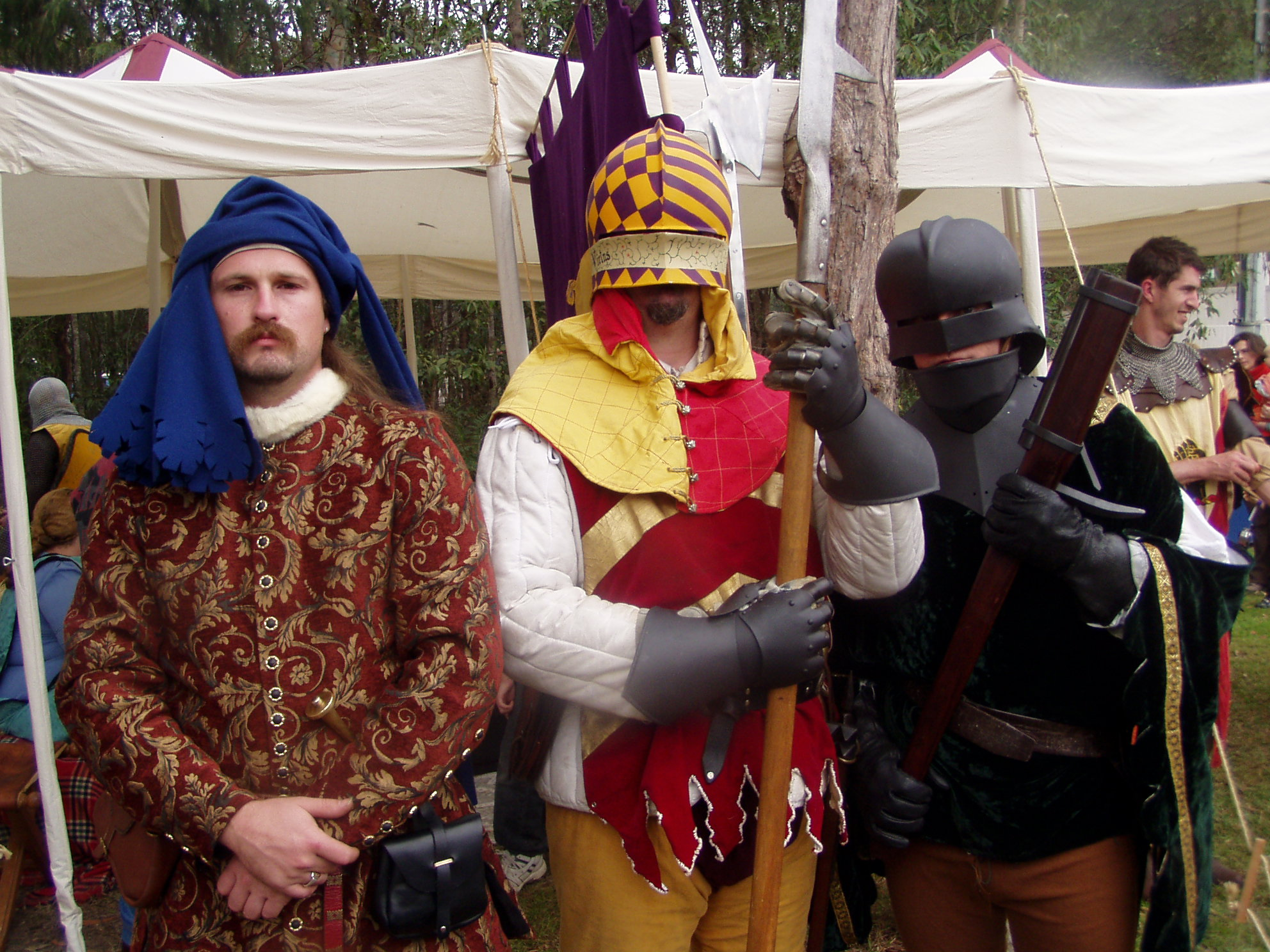 Members of the Company of the Wolf, one in civilian garb, an armoured pikeman and an armoured hand gunner